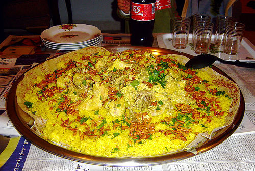 Mansaf as served in an Ammani household.